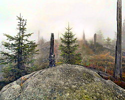 Rock on the top of Bílá smrt in Jizera Mountains